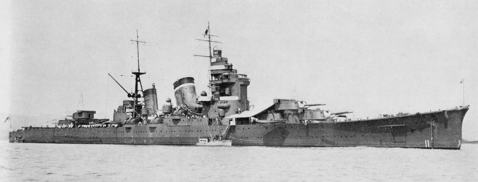 Picture of Japanese heavy cruiser Myōkō, 1931.